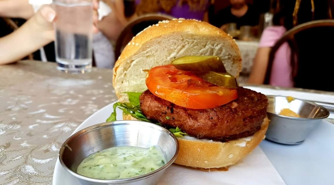 Beyond Meat Burger dish at Zakaim restaurant in Israel.